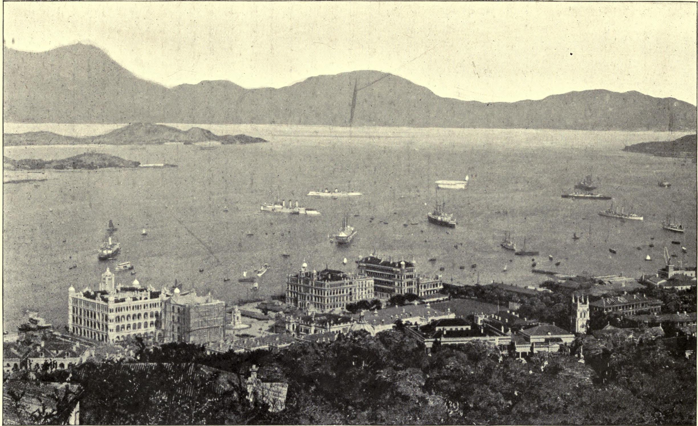 Great buildings facing harbour constructed since 1891 on reclamation. Part of the City of Victoria, Hong Kong, showing east end of reclamation.